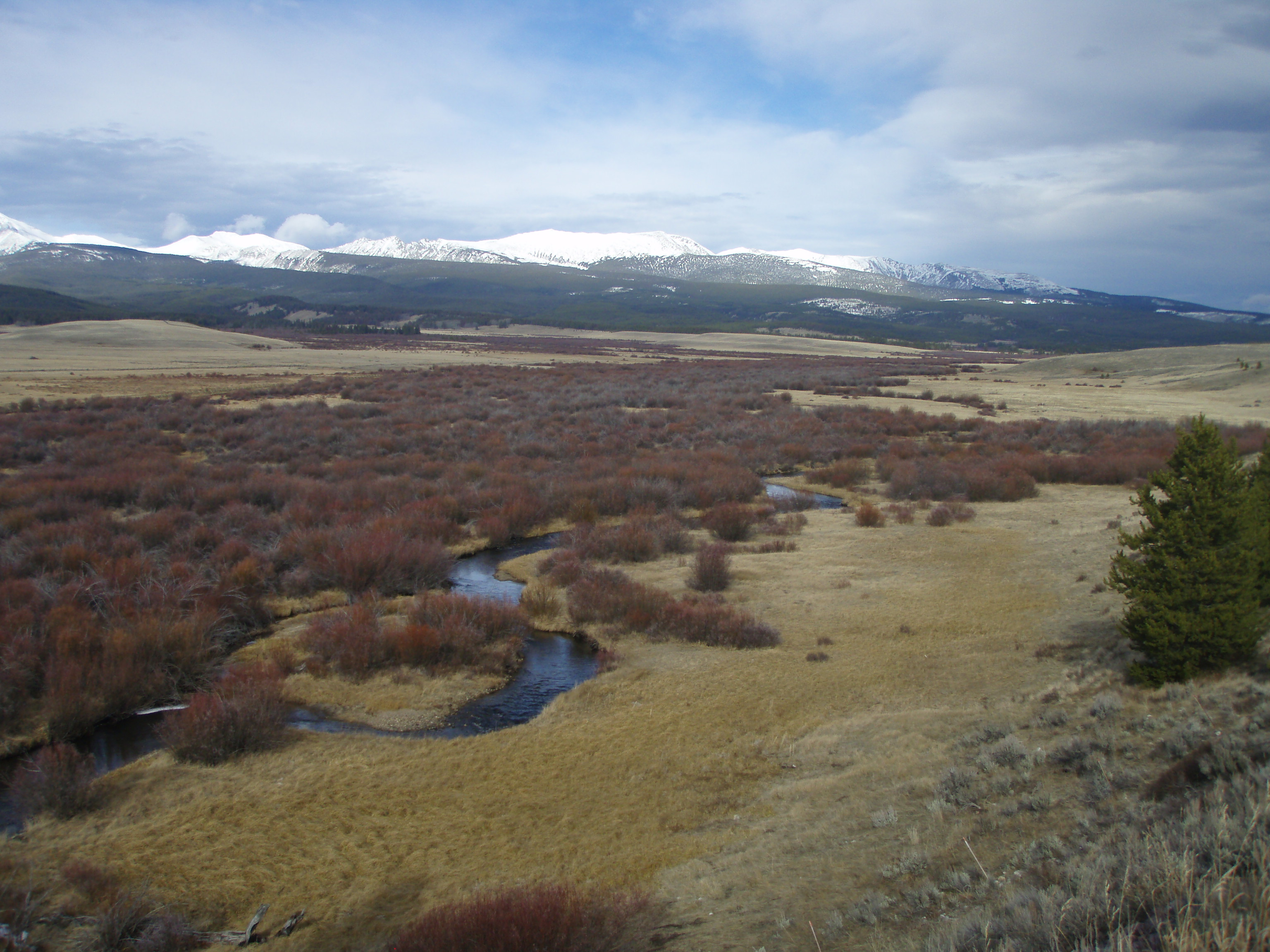 Upper Big Hole River near Jackson, Montana November 2008